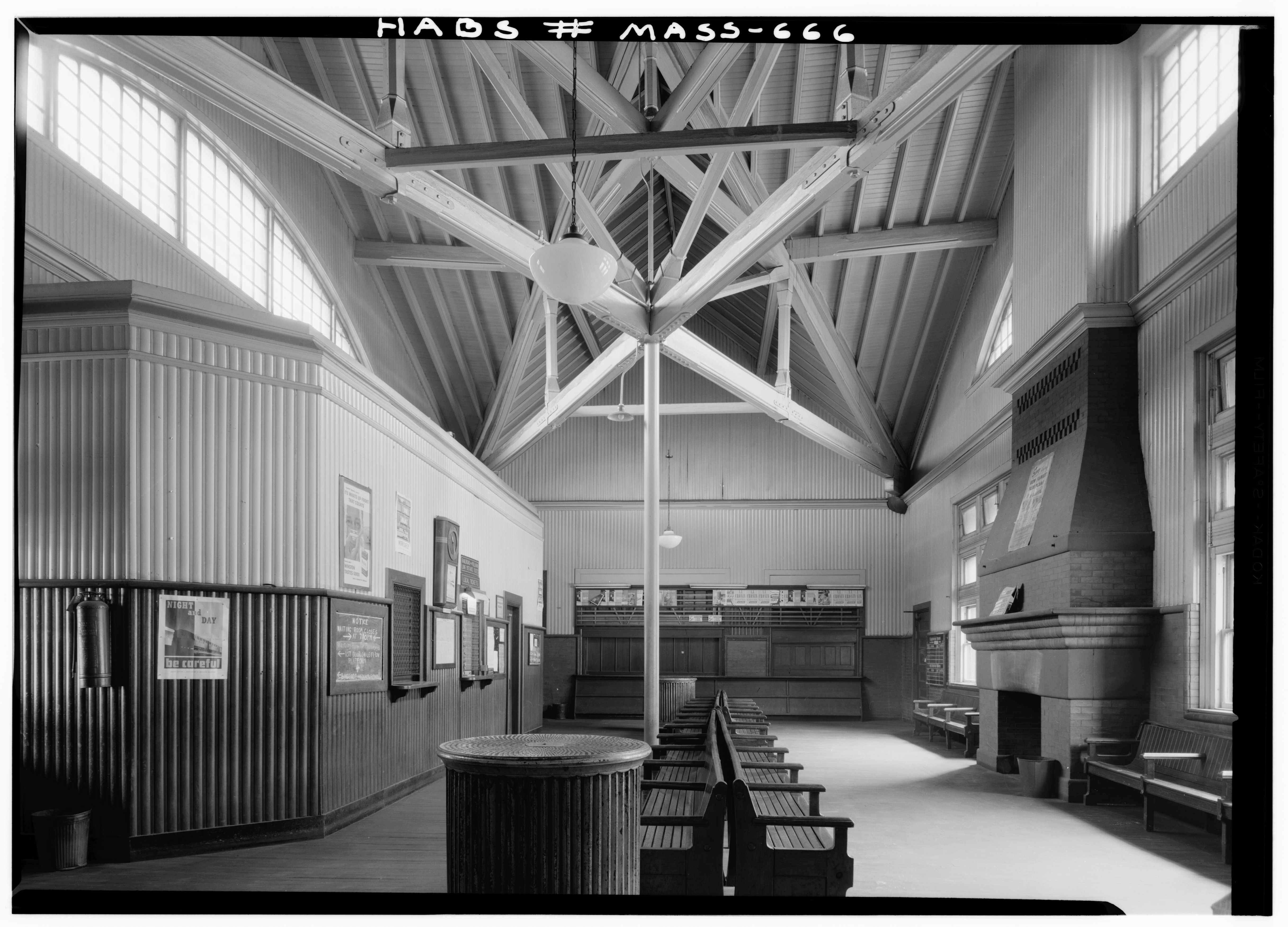 Interior view of the Framingham Railroad Station in 1959 Original caption: EAST INTERIOR ELEVATION - Boston & Albany Railroad Station, Waverly Street, Framingham, Middlesex County, MA